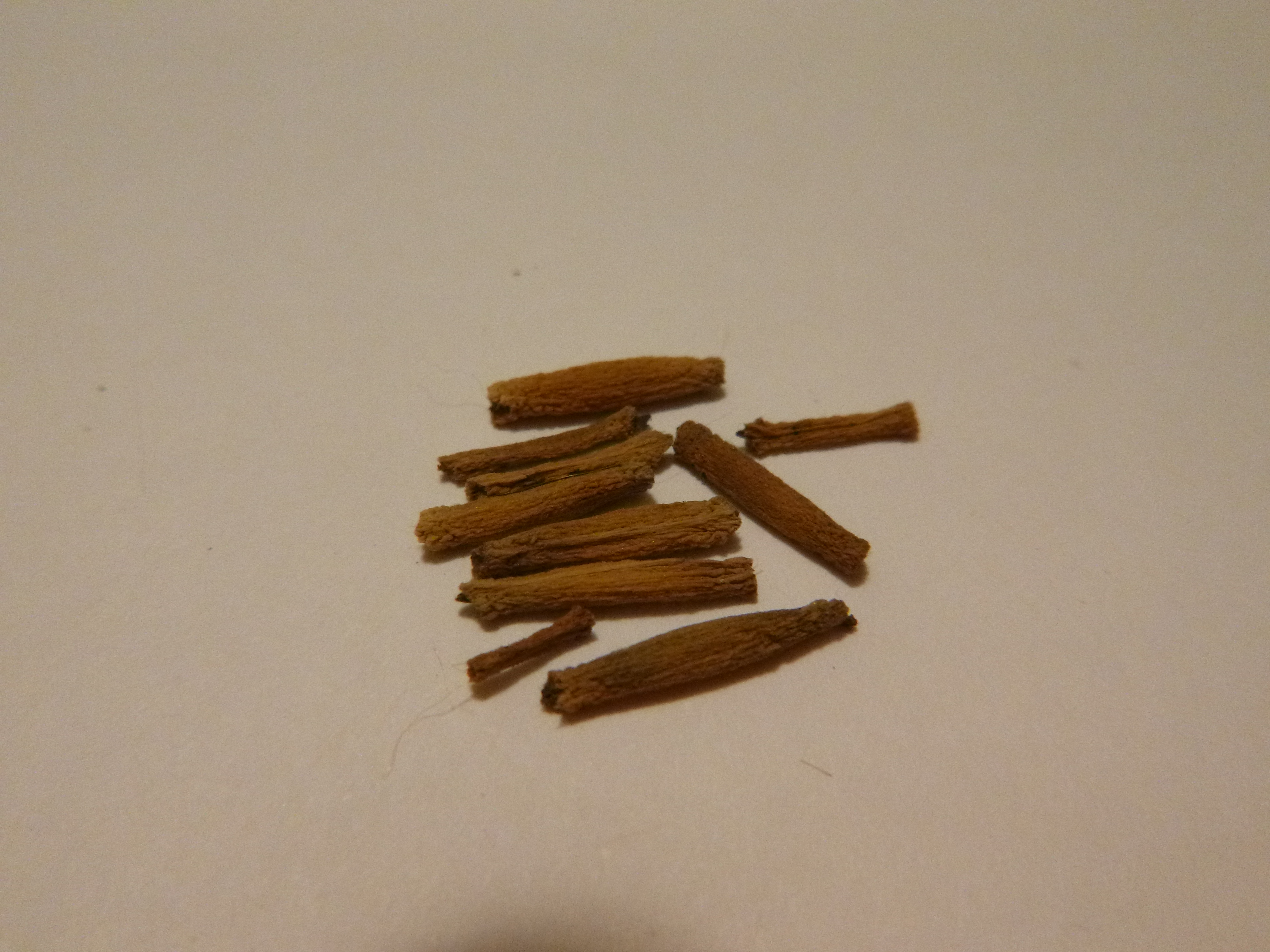 A few seeds from my Adenium obesum plant. The tassels on each end have been removed.